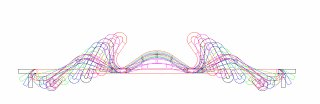 Image of a computer designed flower pattern for roll forming